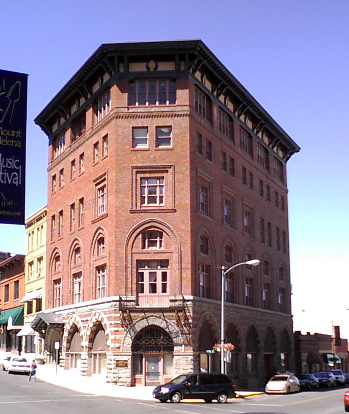 Montana Club, 24 W. 6th Helena, MT Building part of the Helena Historic District on NRHP